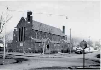 Scope and Content Note: St. Matthew's Anglican Church, 2165 Winnipeg Street . Copyright held by the City of Regina Archives